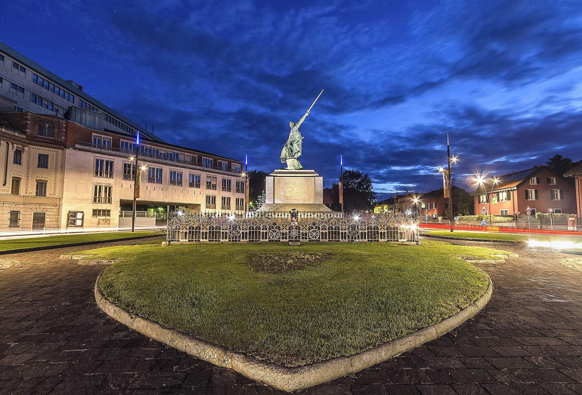 Piazza Monumento - Legnano This is a photo of a monument which is part of cultural heritage of Italy.